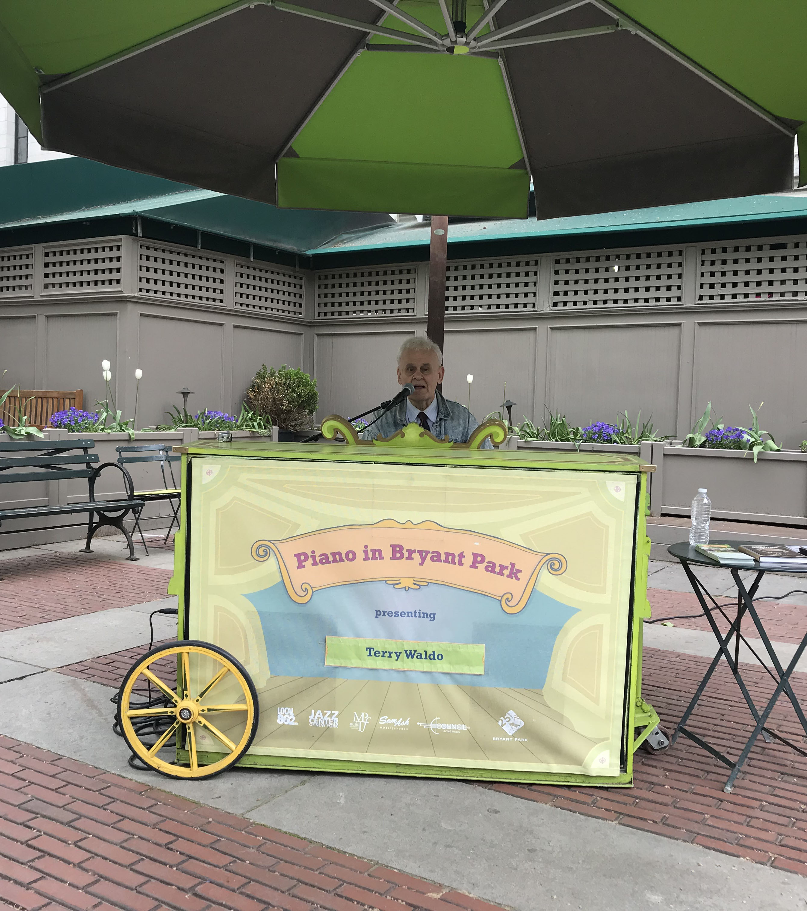 Terry Waldo in Bryant Park, New York City